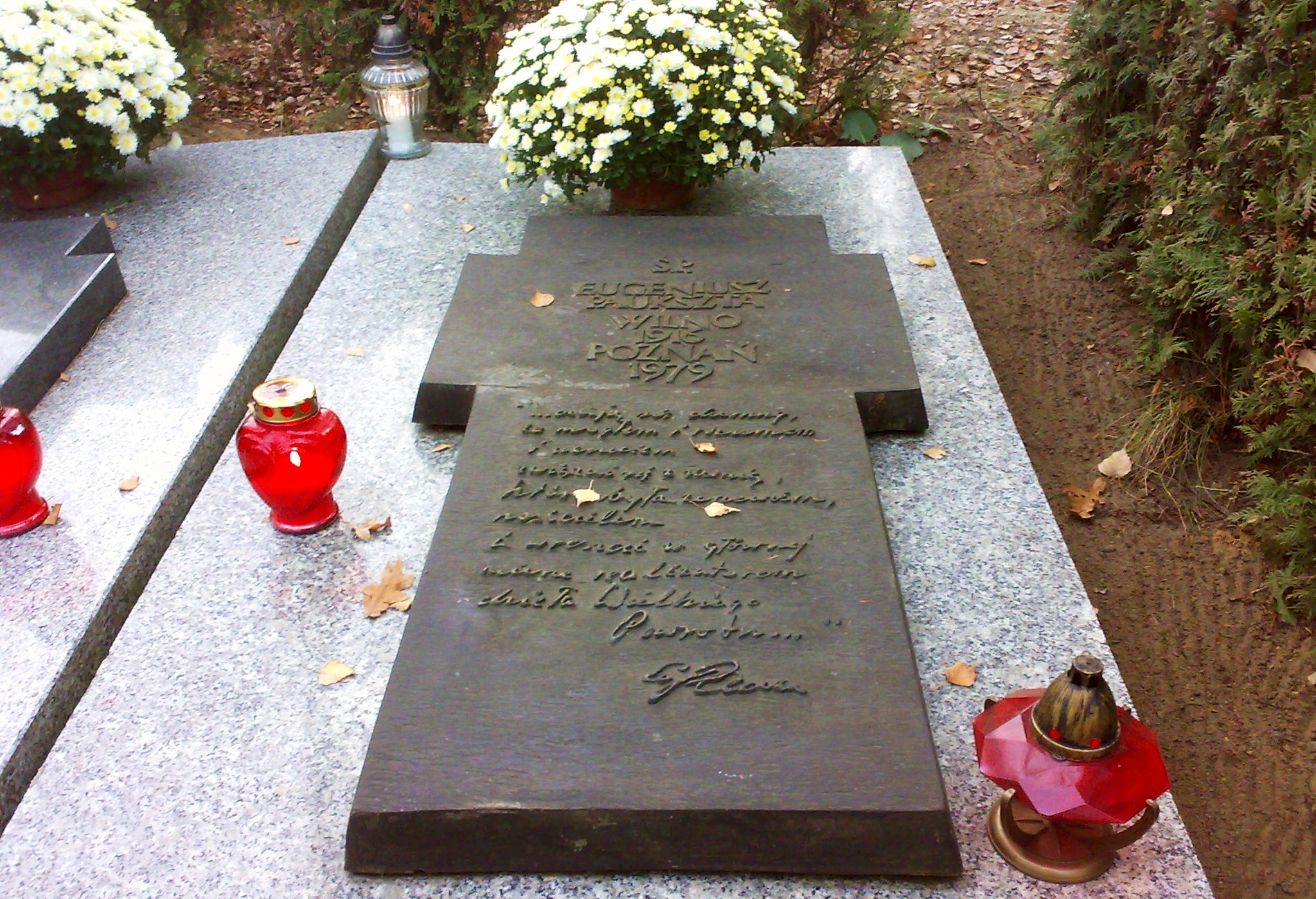 Tomb of Eugeniusz Paukszta (writer) in Junikowo-Nekropoly in Poznan.